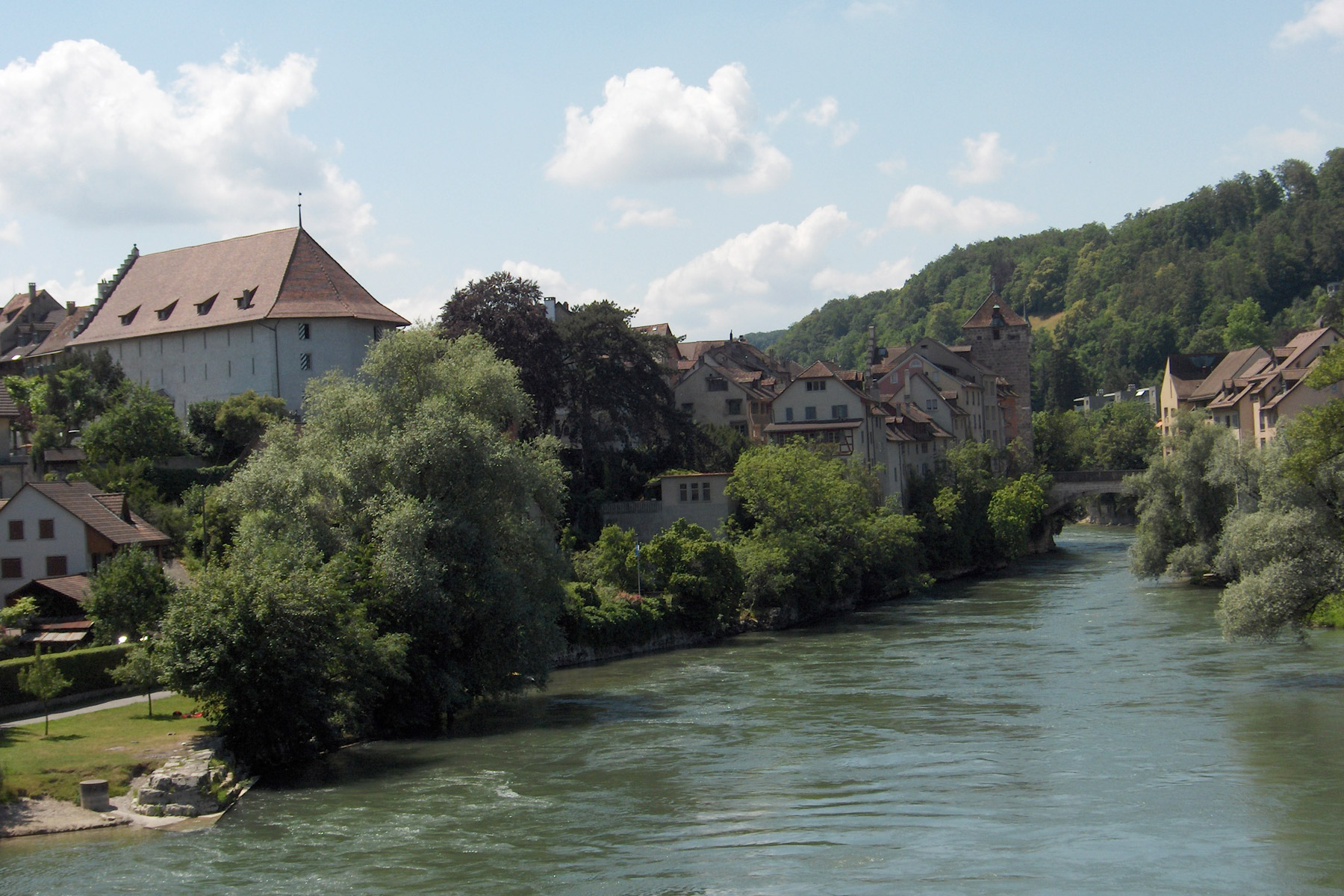 Die Altstadt von Brugg an der Aare Fotografiert durch Voyager, 28. Juni 2006 The old town of Brugg on the river Aare Photo taken by Voyager, 28 June 2006